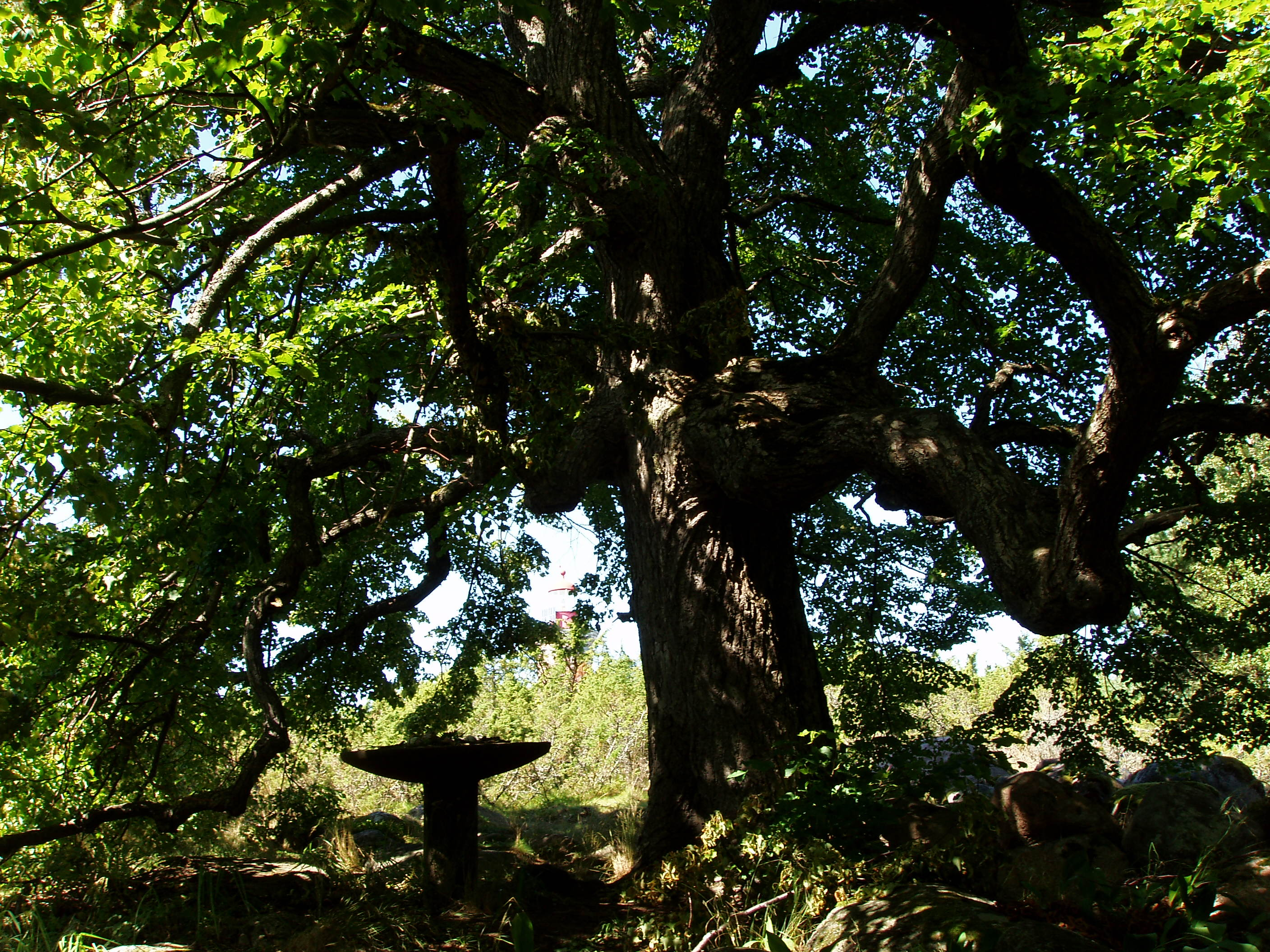 The Mohni Linden (Tilia cordata) from island Mohni in Estonia. The linden is a relic from the large linden and oak forest that once grew there.